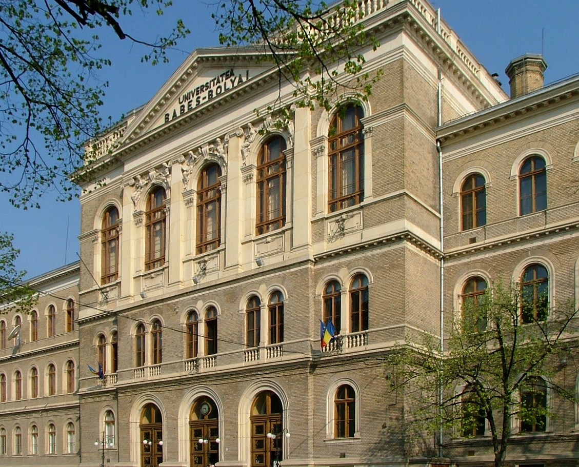 Babeş-Bolyai University, Cluj-Napoca, Romania